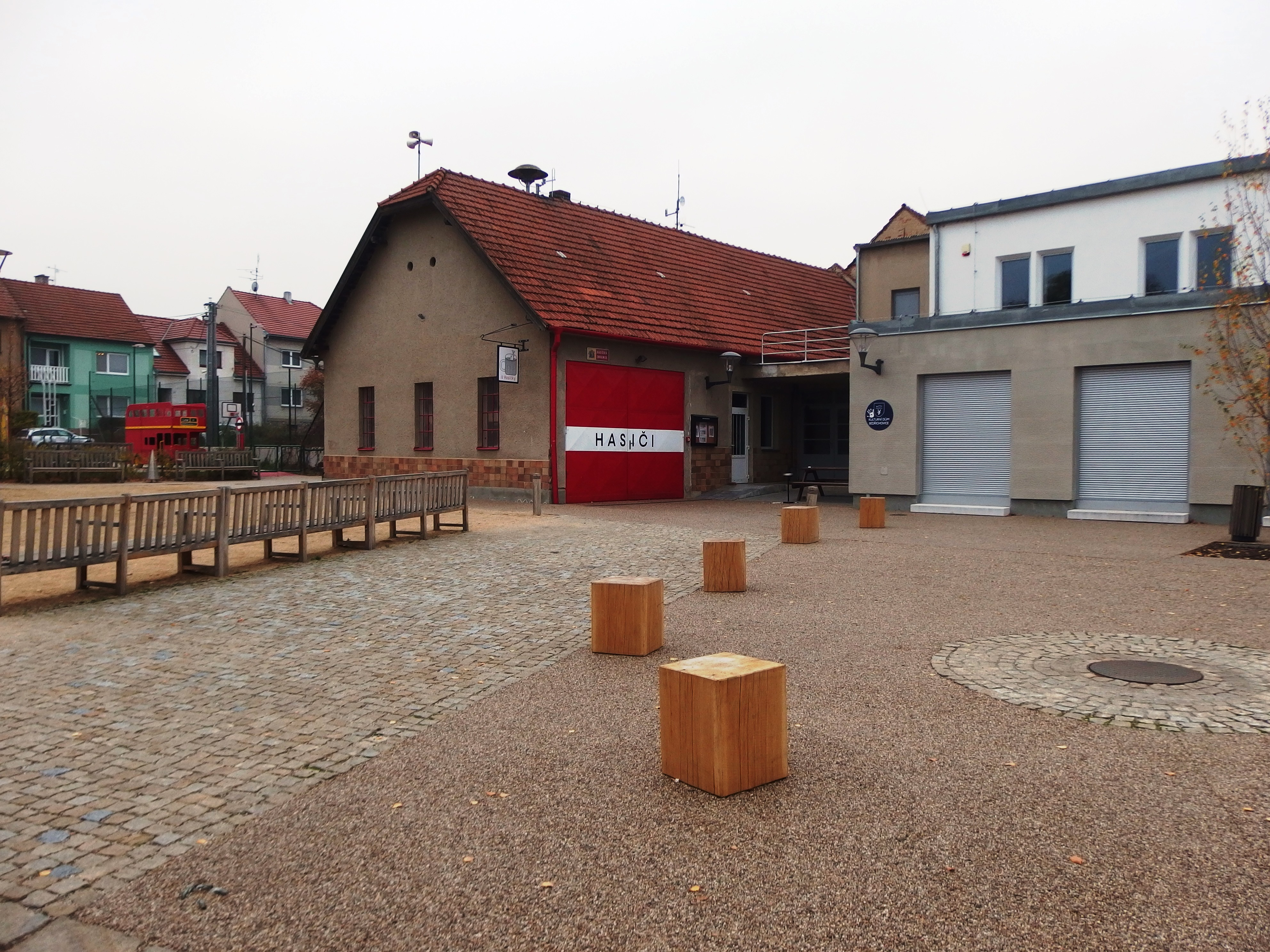 Šlapanice, Brno-Country District, Czech Republic, part Bedřichovice.